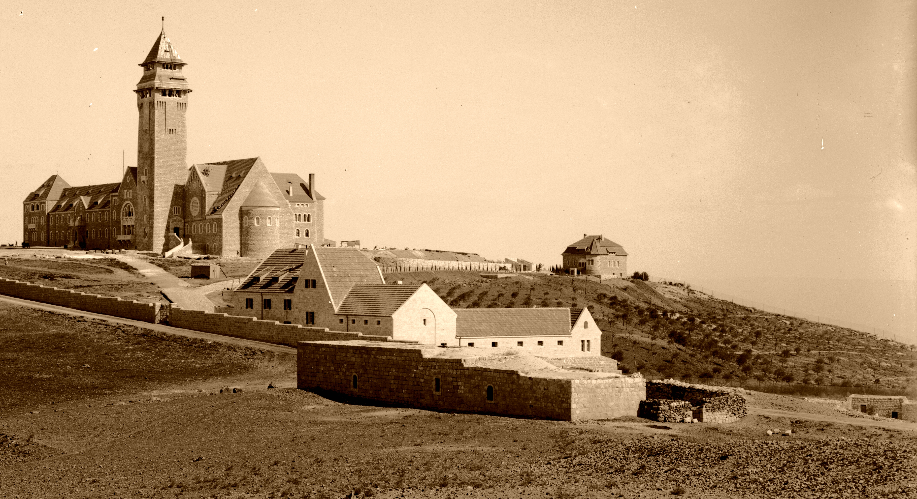 Augusta Victoria Hospice, Jerusalem